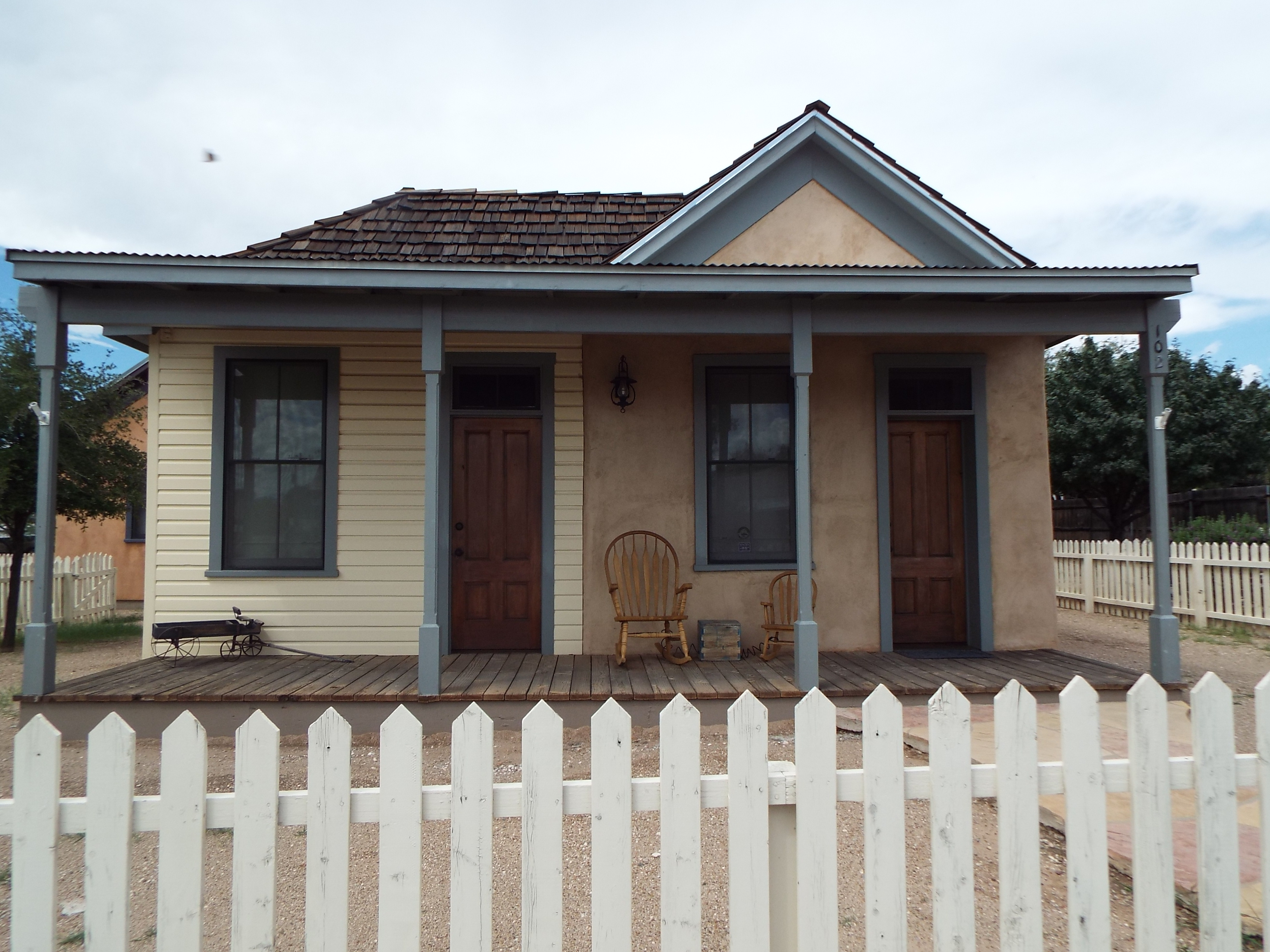 Wyatt Earp House and Gallery built in 1879. The house is located on the corner of Freemont Road and 1st Street. It is an art museum which features a wide array of creative art pieces. Although a sign in front says it was Wyatt Earp's home, he lived across Fremont Street and four lots to the South.